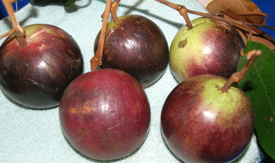 A photo of the Kaimito (Star Apple) fruit